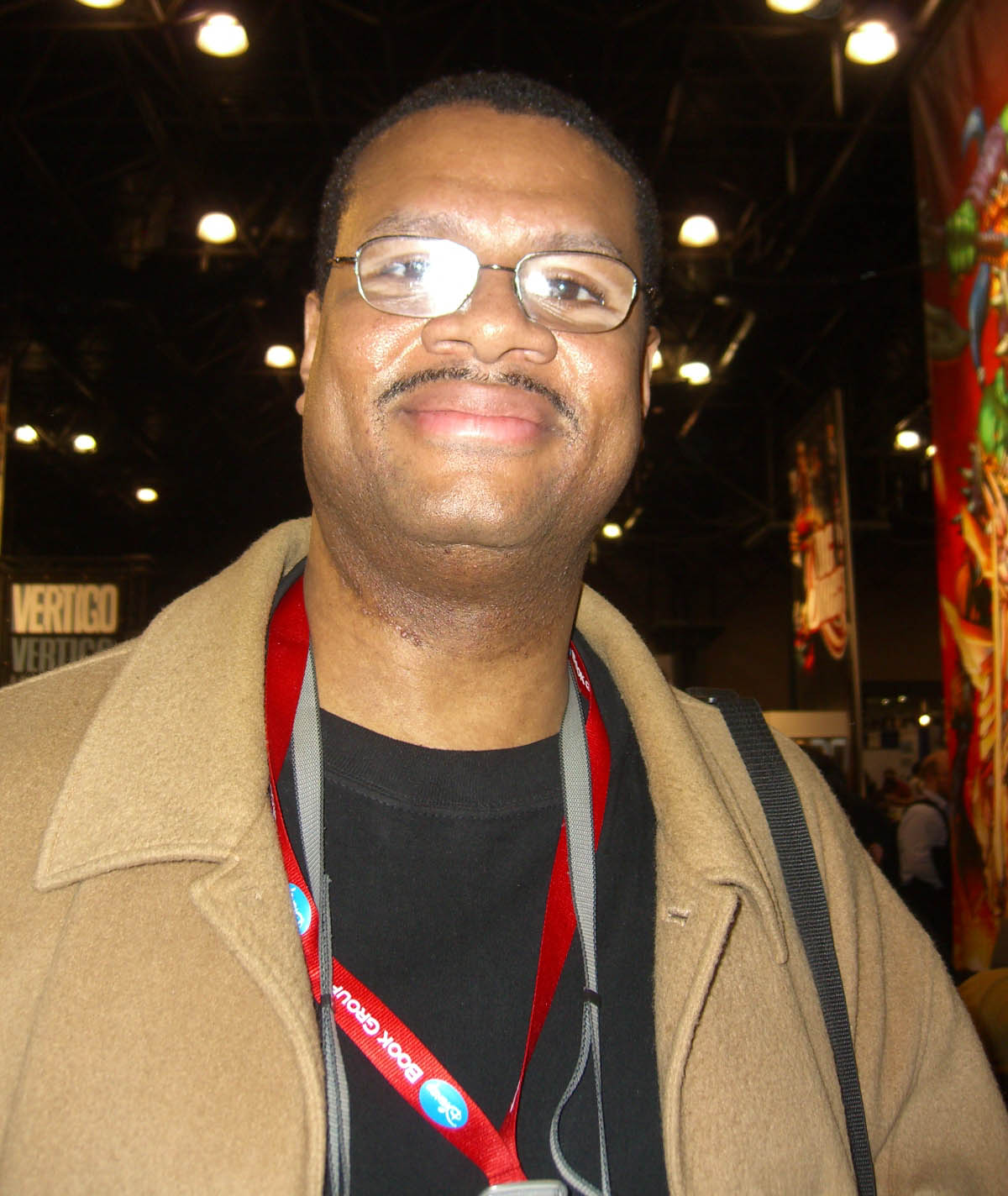 Comic book creator ChrisCross at the New York Comic Convention in Manhattan.